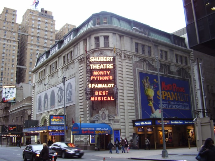 Shubert Theatre, NYC, 2006. Photo by Mademoiselle Sabina